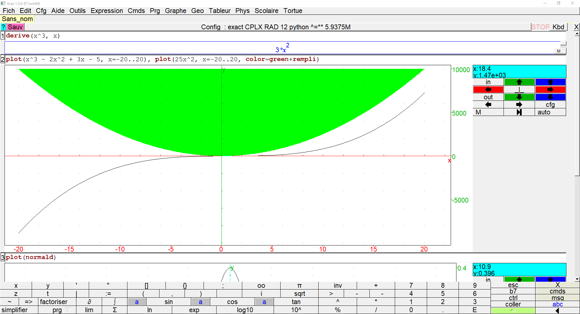 Xcas 1.5 running on windows 10, ploting function and calculating the derivative of the cubed function.